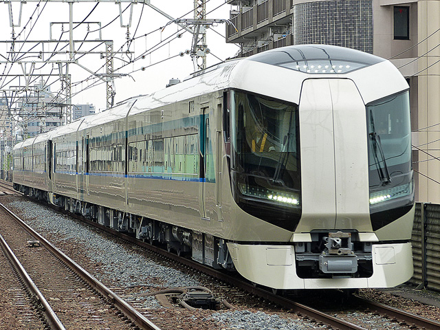 A pair of Tobu Railway 500 series three-car EMUs approaching Gotanno Station on the Tobu Skytree Line